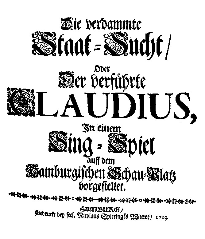 Reinhard Keiser - Der verführte Claudius - titlepage of the libretto from 1703